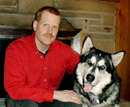 Matthew Stover